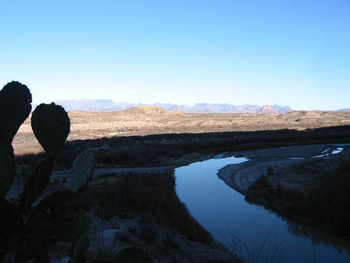 The cliffs of Santa Elena Canyon provide a cool shady area at the Rio Grande River contrasting with the blistering desert beyond. Picture taken facing approx North from Santa Elena canyon in Big Bend National Park, February 2004